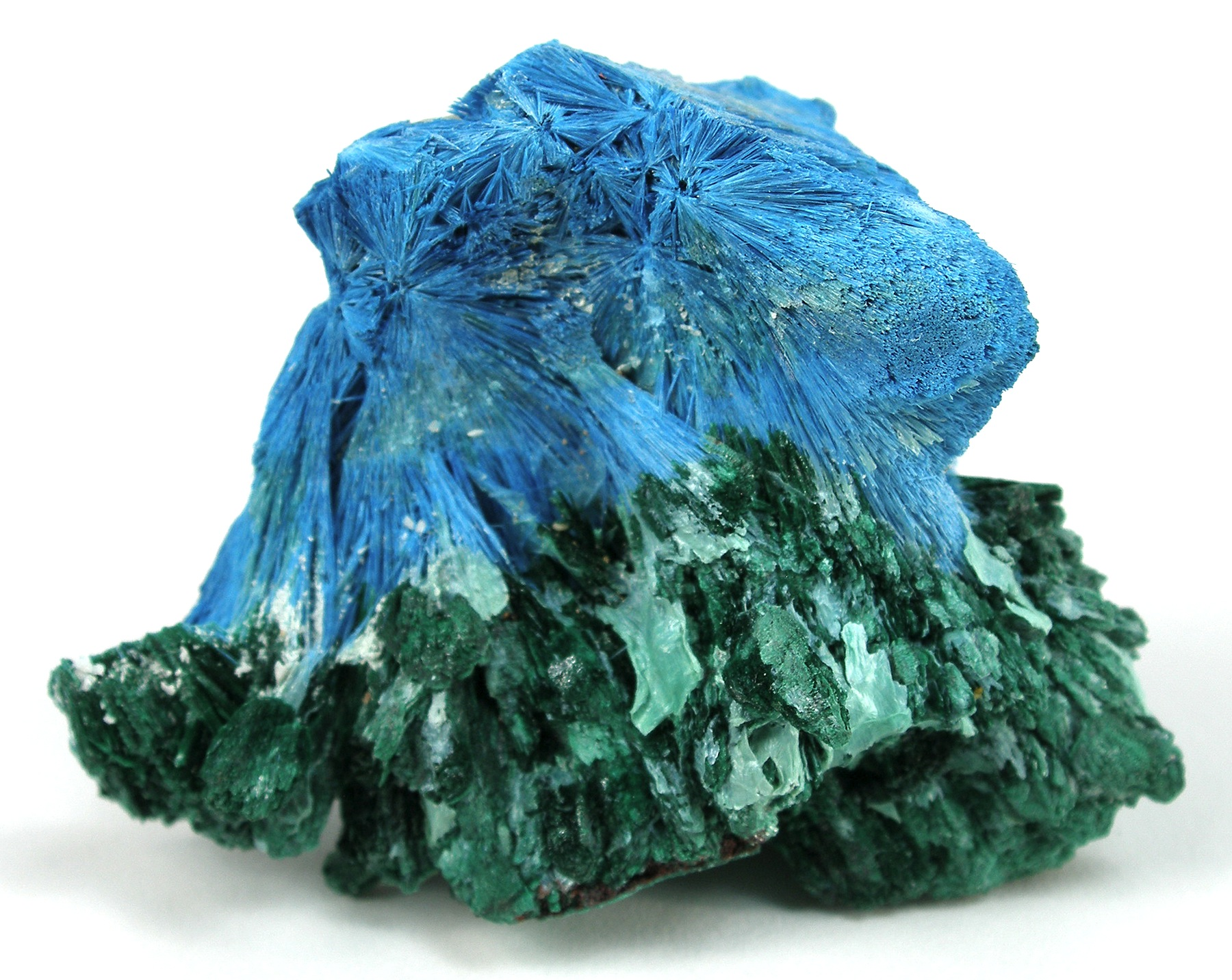 Shattuckite Locality: Okenwasi Mine, Kaokoveld Plateau, Kunene Region, Namibia Size: miniature, 5.2 x 4.0 x 3.0 cm Shattuckite (rare crystals ps. after Malachite) A rare, crystallized shattuckite specimen! The big crystals, such as this, are much more uncommonly seen from any deposit where this species is found, than druses and globular growths. In fact, I believe this is the BEST locale for the species, for such crystals (though it should be noted they are replacements pseudo. after malachite) - and this specimen would host some of the larger ones that I know of. The crystals , to 2 cm on the front display face, form a solid interconnected mound of spraying , elongated, acicular crystals atop a mound of contrasting deep green malachite. The cluster is complete around the backside as well (showing xls to 3 cm).